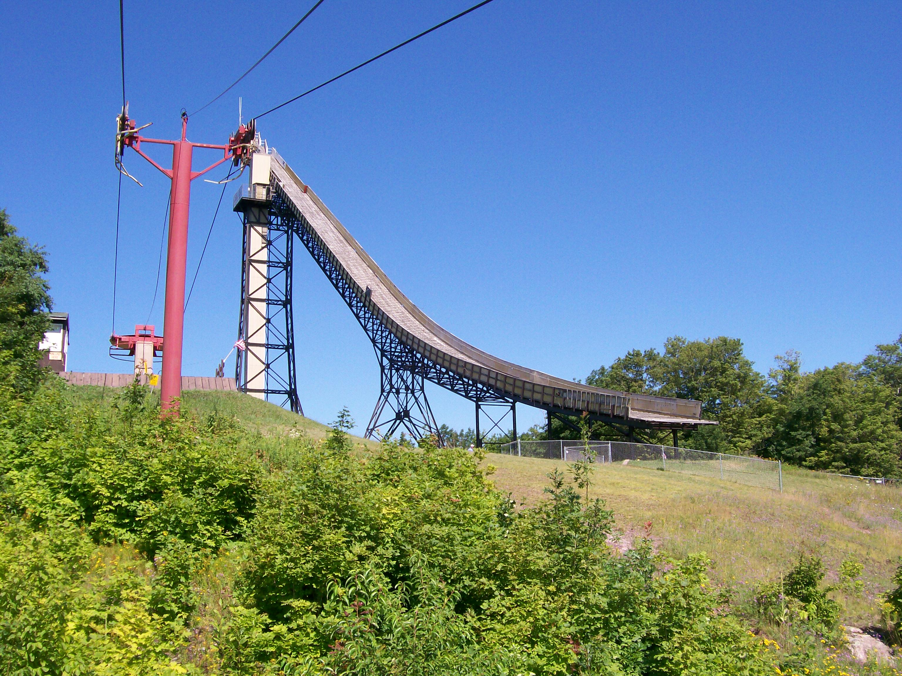 Copper Peak Ski Flying Hill, from the chairlift